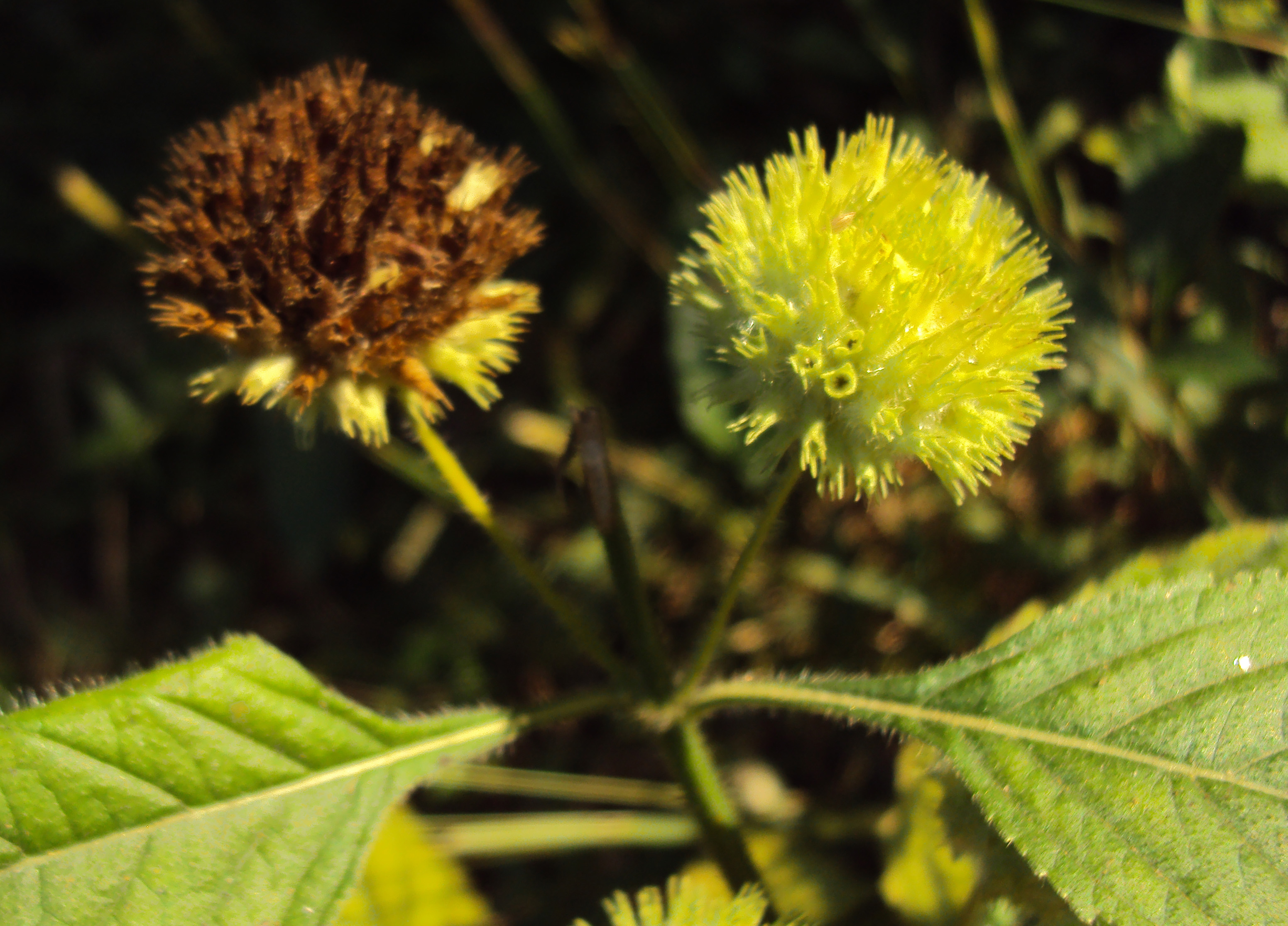 Hyptis capitata